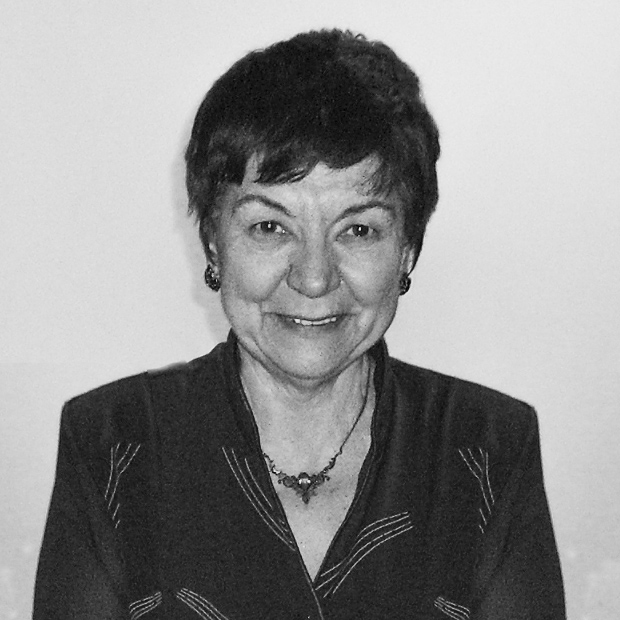 Olshevskaya G. K. Museology laboratory, Museum of Contemporary History of Russia